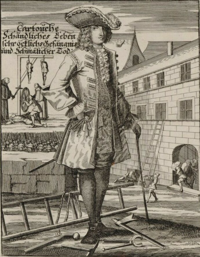 Louis Dominique Cartouche